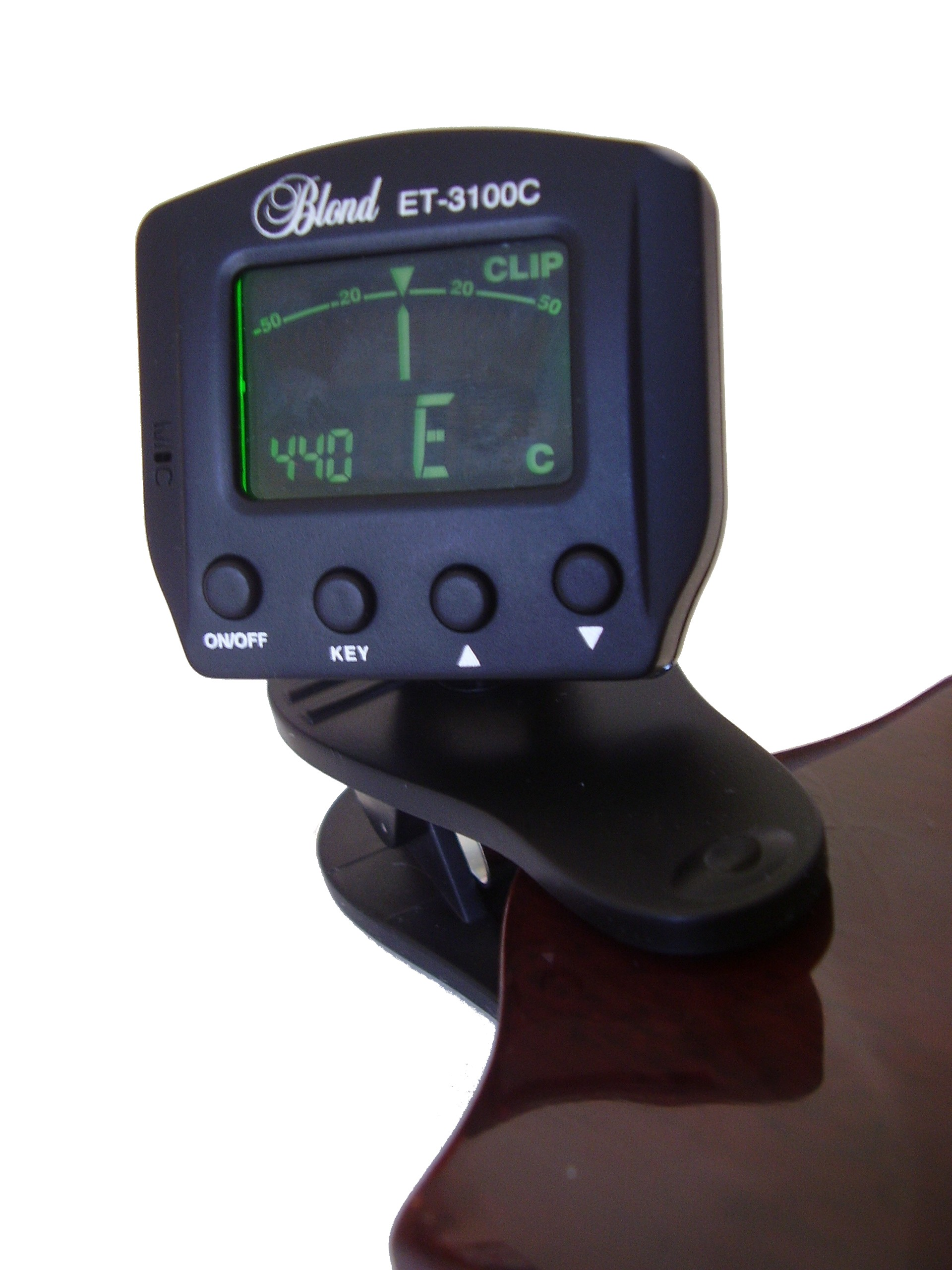 Electronic chromatic tuner Blond